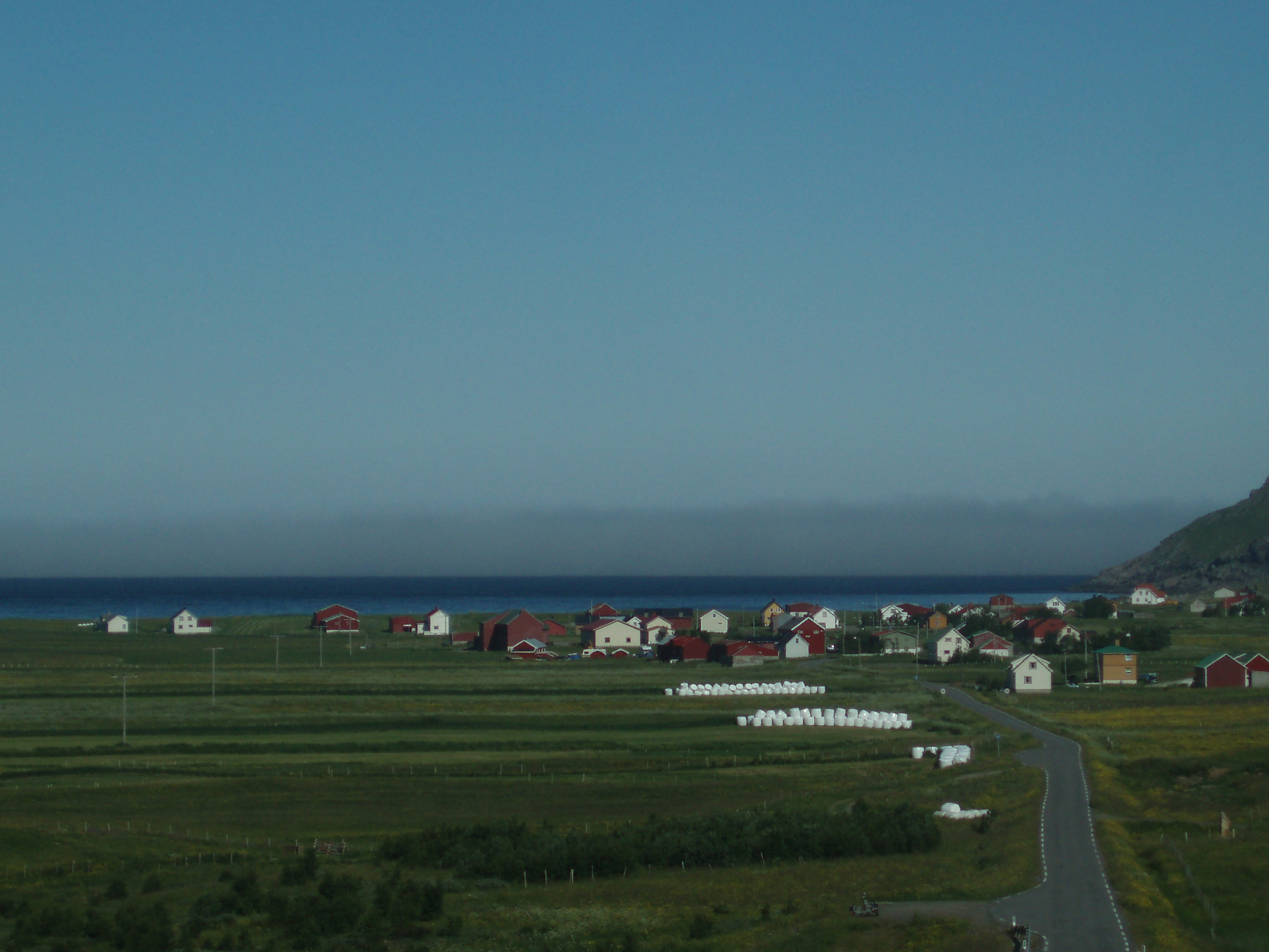 Unnstad on the western side of Vestvågøy in Lofoten